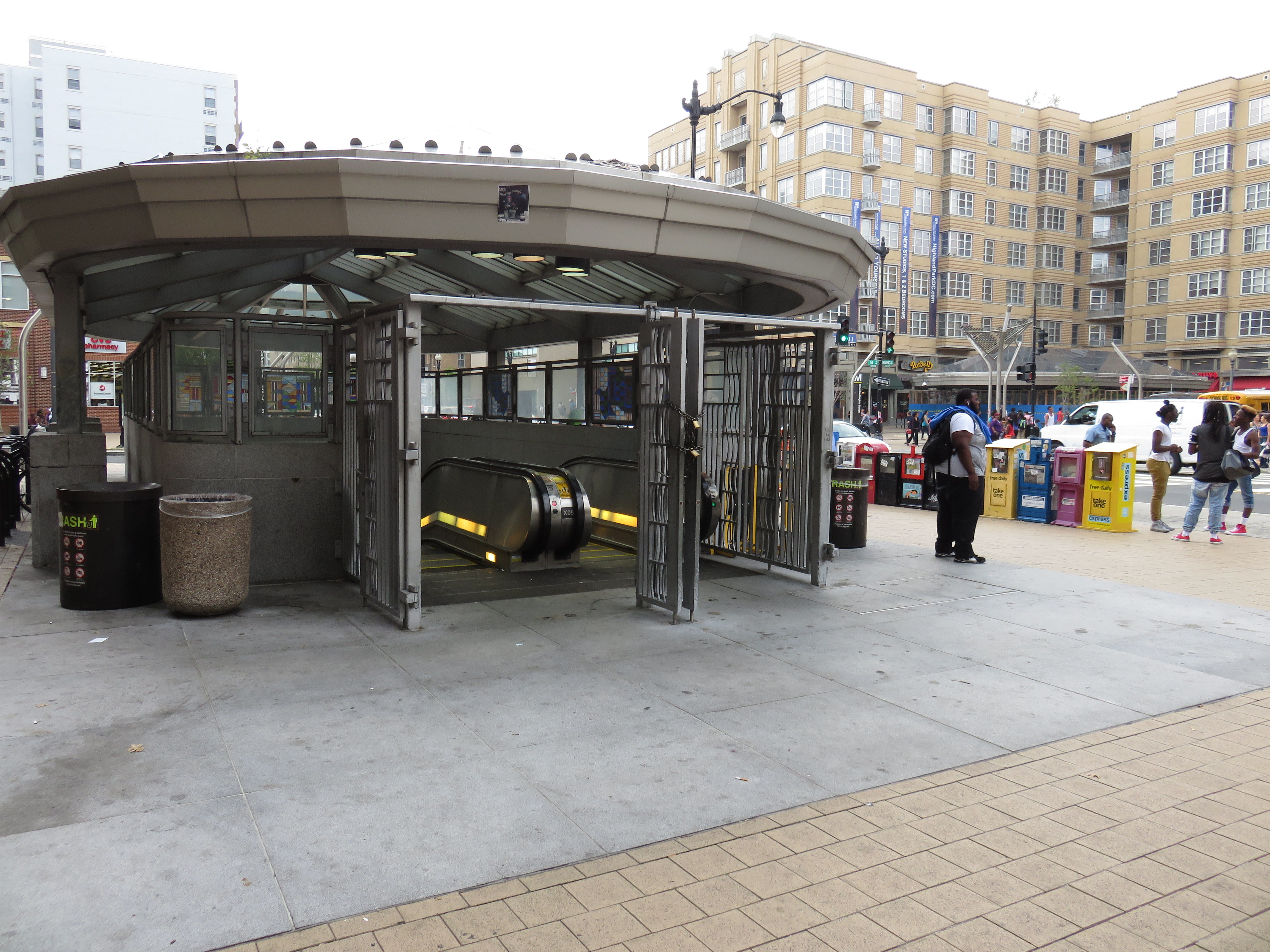 Headhouses of the Columbia Heights Metro station in Washington, D.C. in 2015. The east headhouse is in the foreground, while the west headhouse is visible across the street to the right.